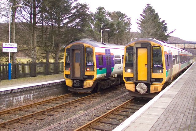 Strathcarron - the end of the line - temporarily Two First ScotRail Class 158 DMUs idling at Strathcarron Station, temporarily the end of the line to Kyle of Lochalsh. In October 2001 a landslip west of Strome Ferry temporarily closed the railway from Strathcarron to Kyle. Photograph taken in January 2002, two months into the five month closure.